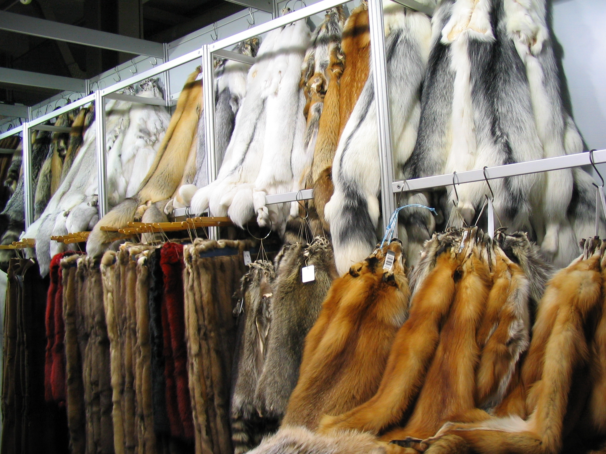 Different fur skins at the fair Mifur in Milano.